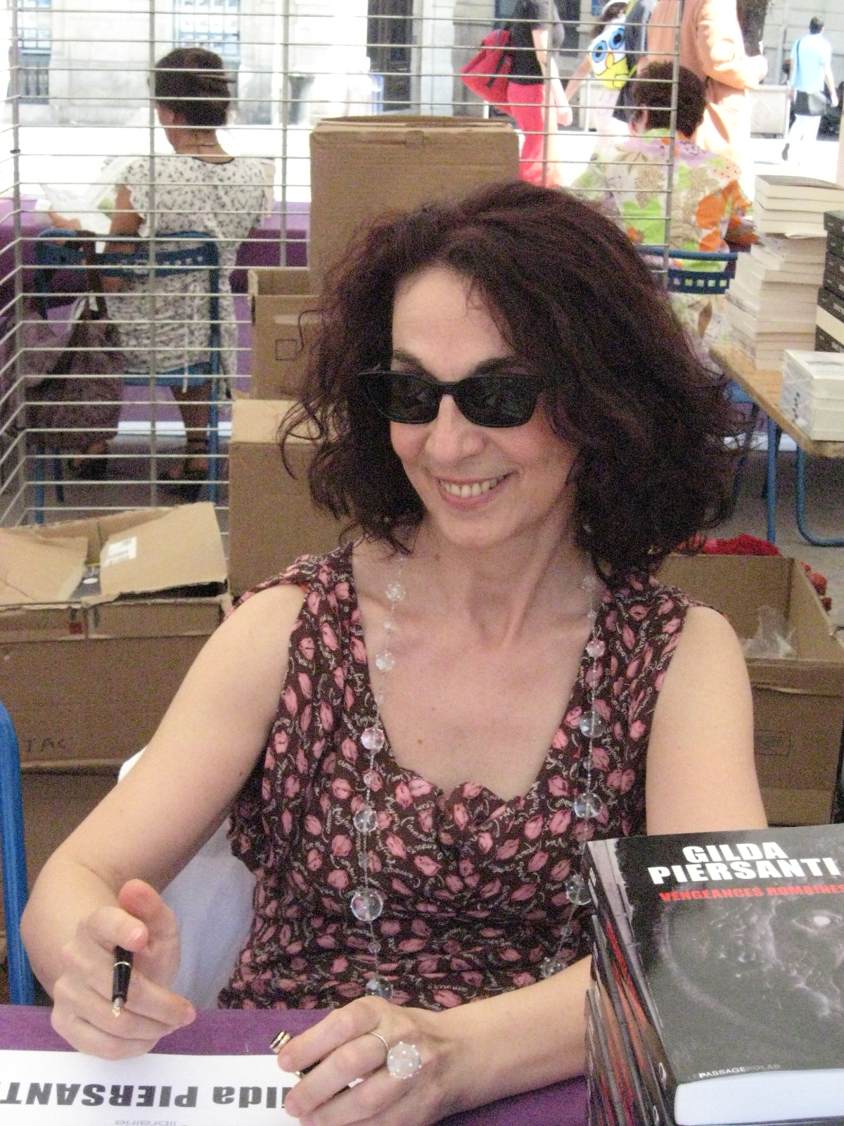 Gilda Piersanti, italian writer